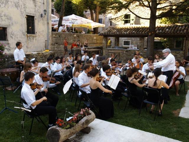 Summer School in Grožnjan, Istria, Croatia